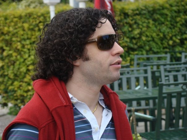 Gustavo Dudamel in the European Tour, 2008